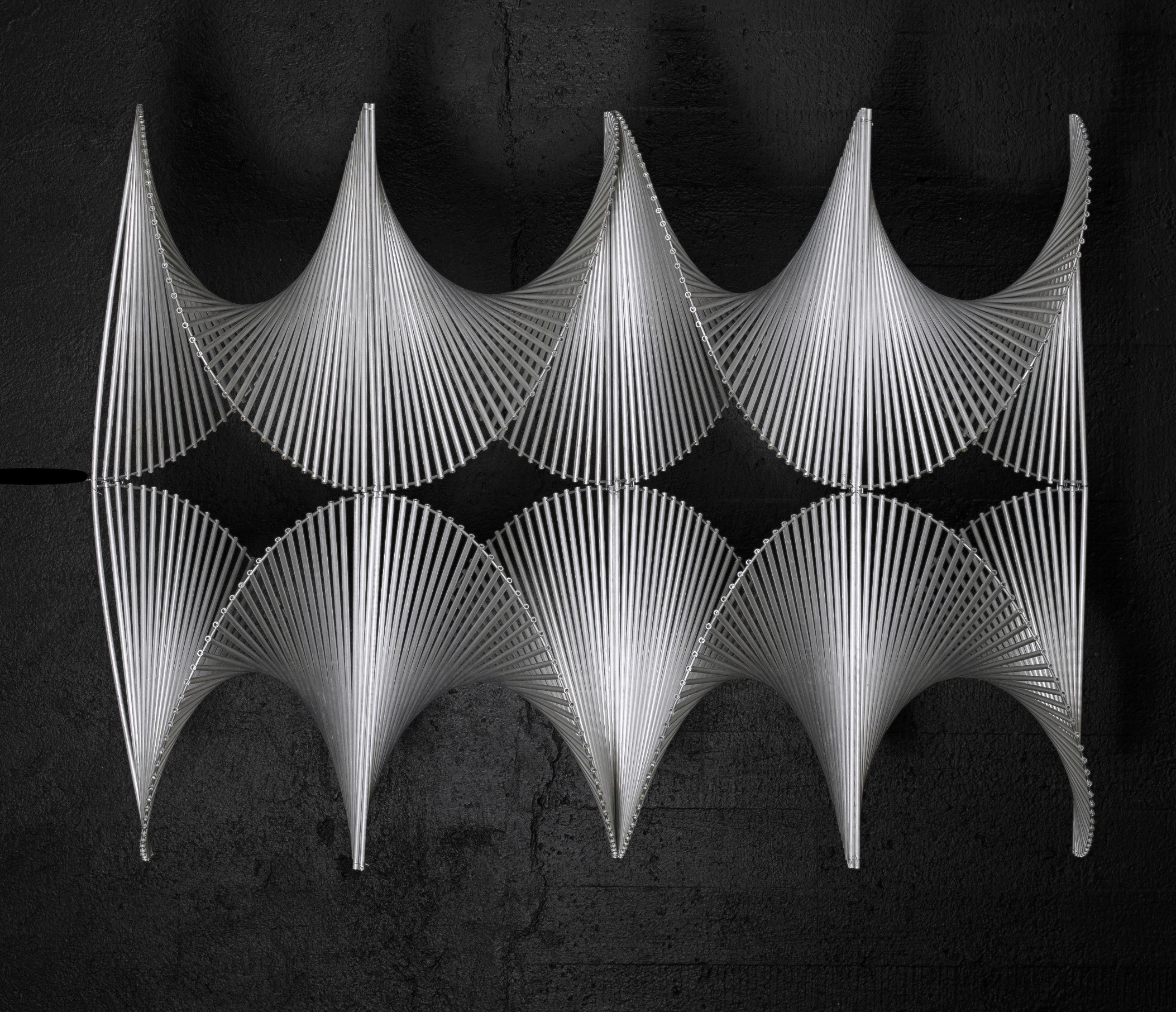 Bertil Herlow Svensson "Del av oändlighet / Liten portal" ca. 1968